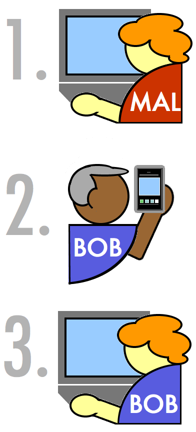 Impersonation, rough sketch: if you have a better image please replace